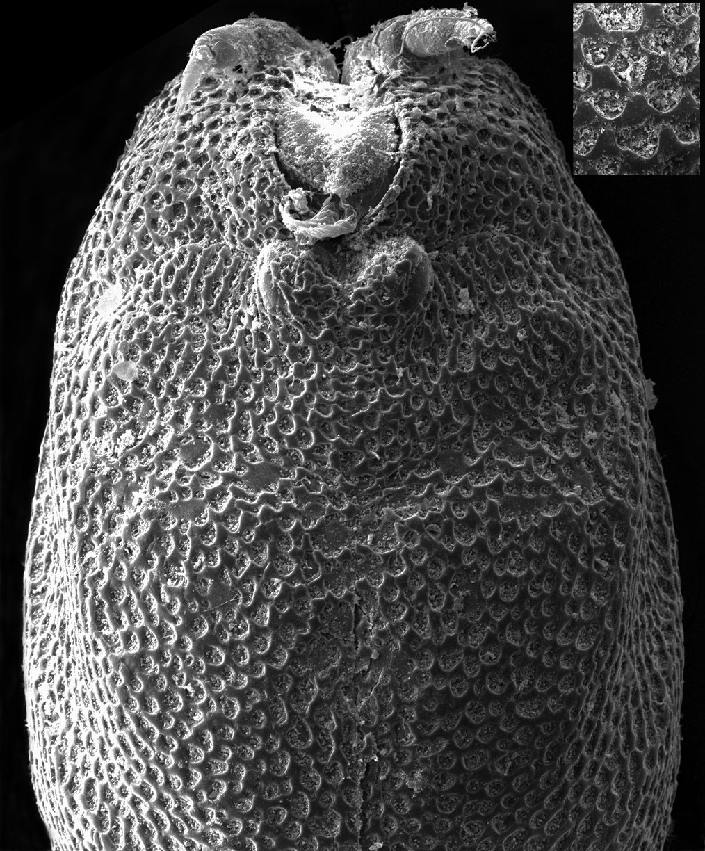 Carapace of Pavlovskeola bicostata (SEM)